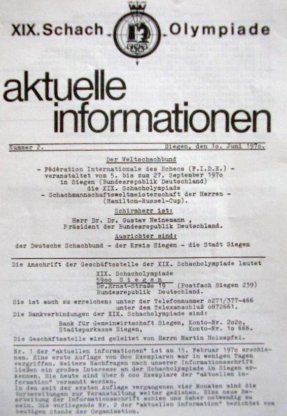 Document to the Chess Olympiade 1970 at Siegen